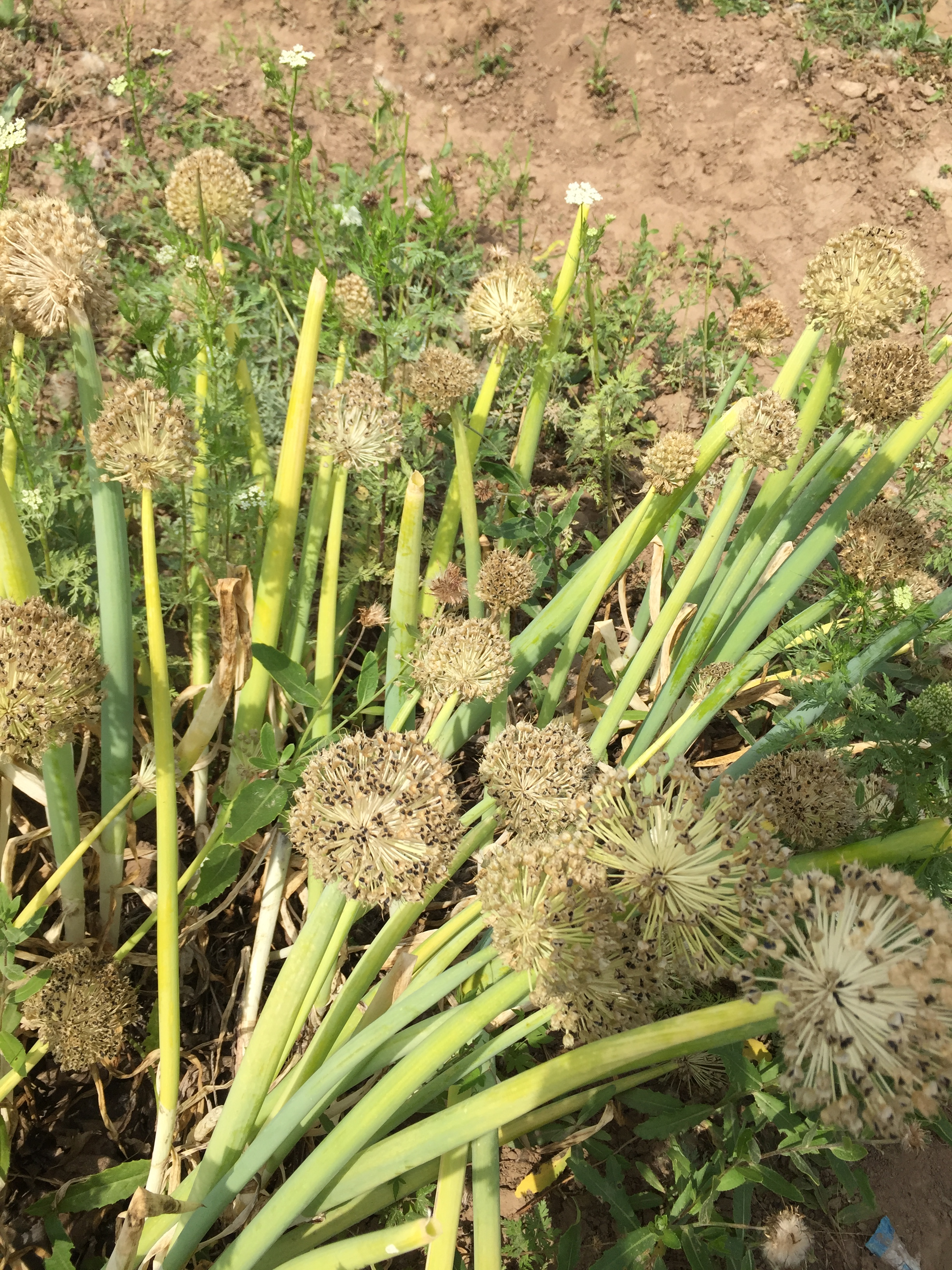 Black sesame crop growing around Taitou